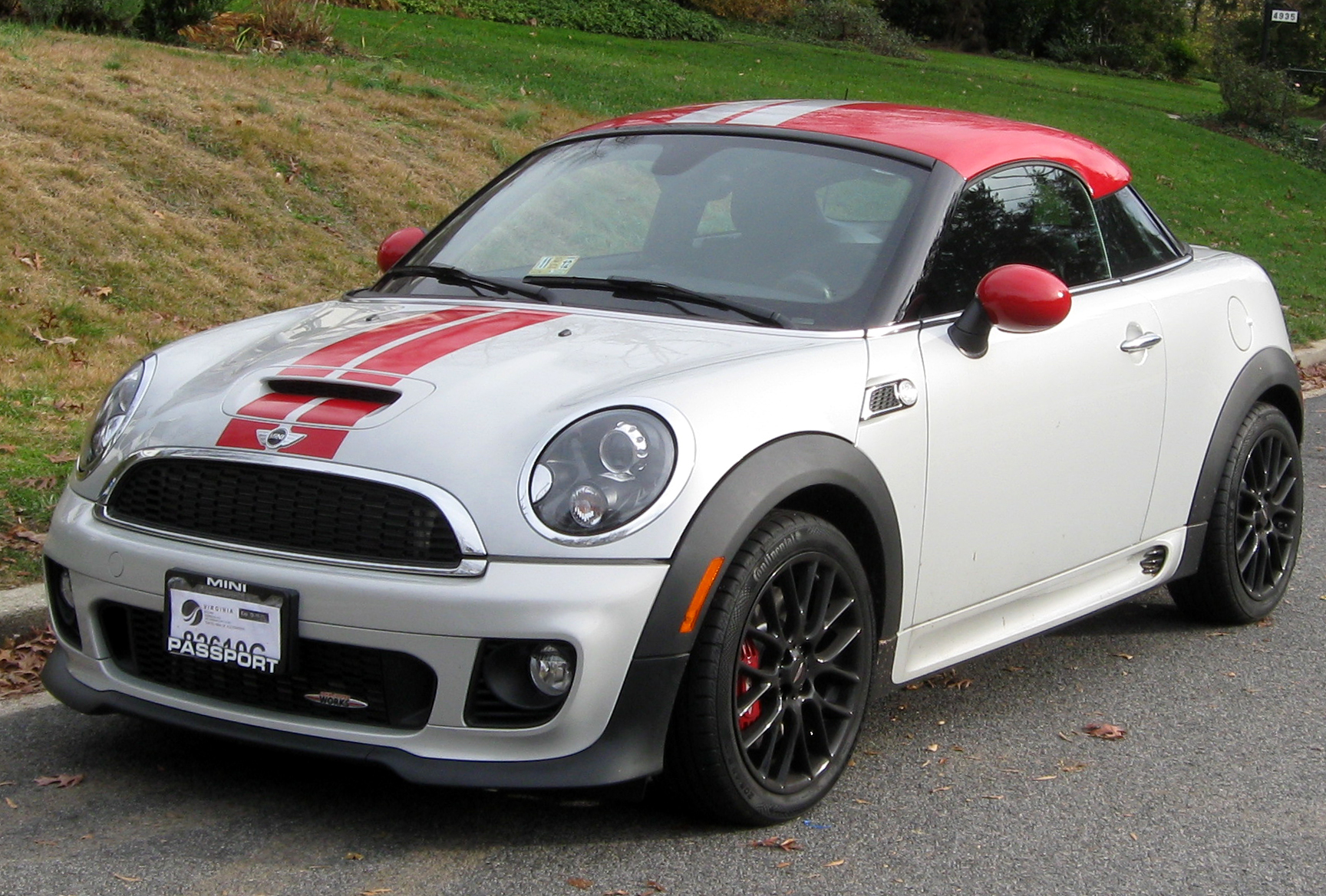 2012 Mini Coupe photographed in Washington, D.C., USA.